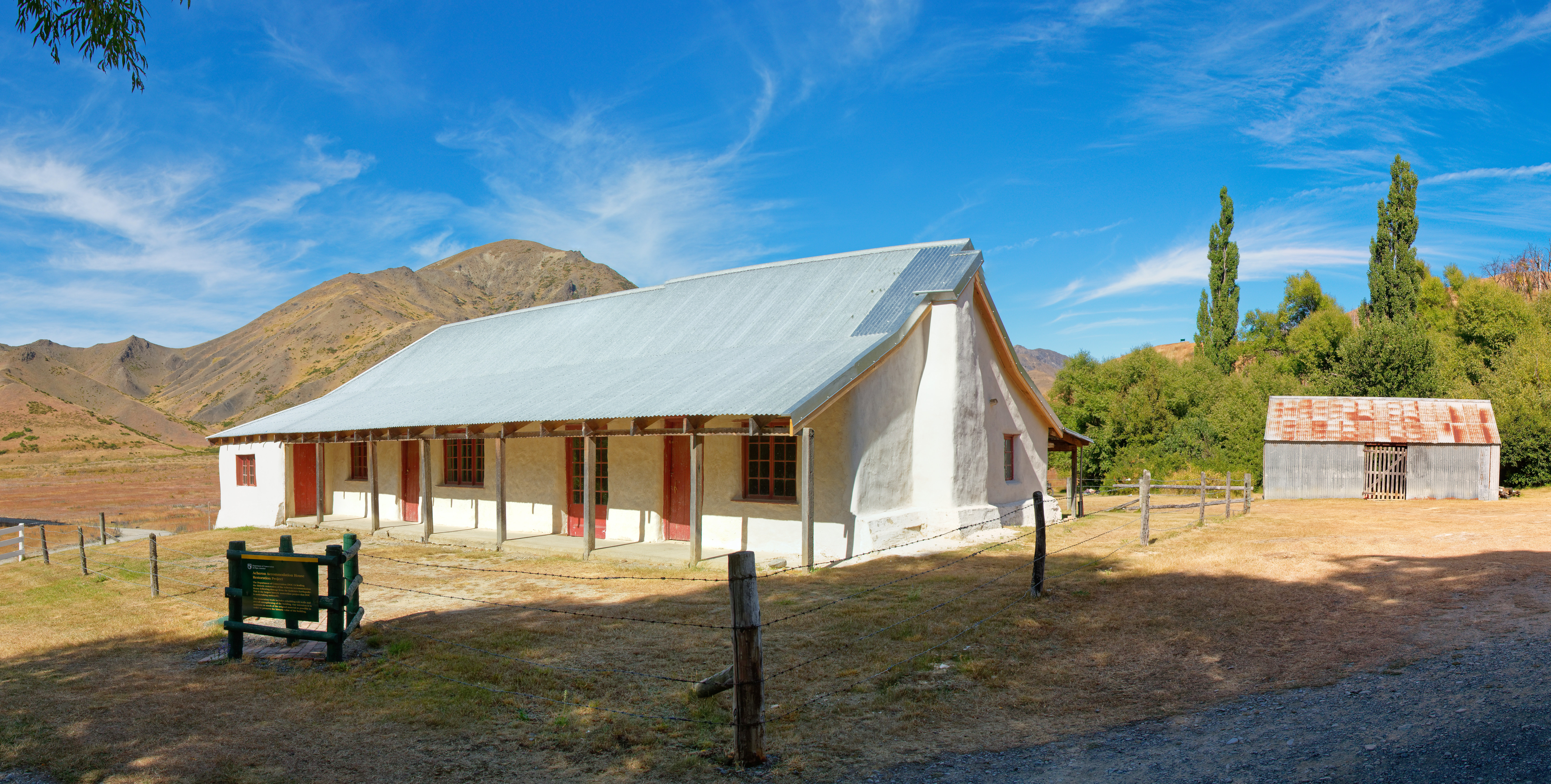 Acheron cob house Location -42.395579, 172.955360